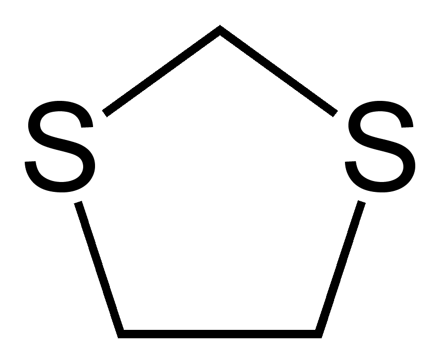 Skeletal formula of 1,3-dithiolane